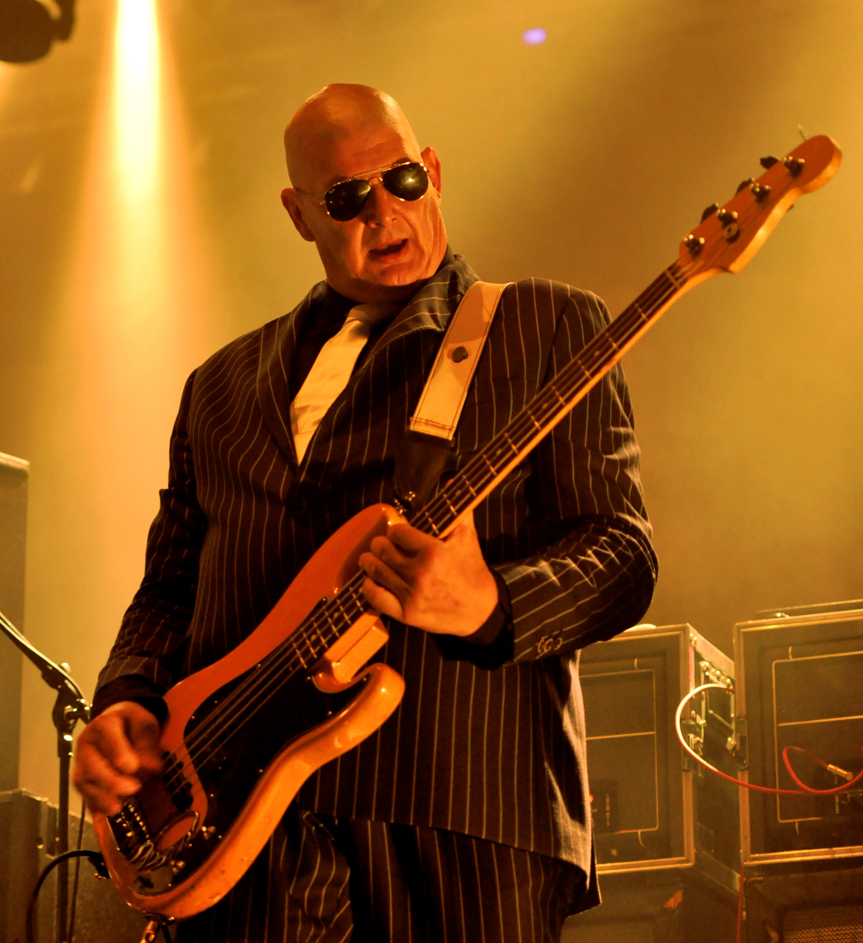 Belgian rock band Triggerfinger at Rocken am Brocken, Germany, 2014